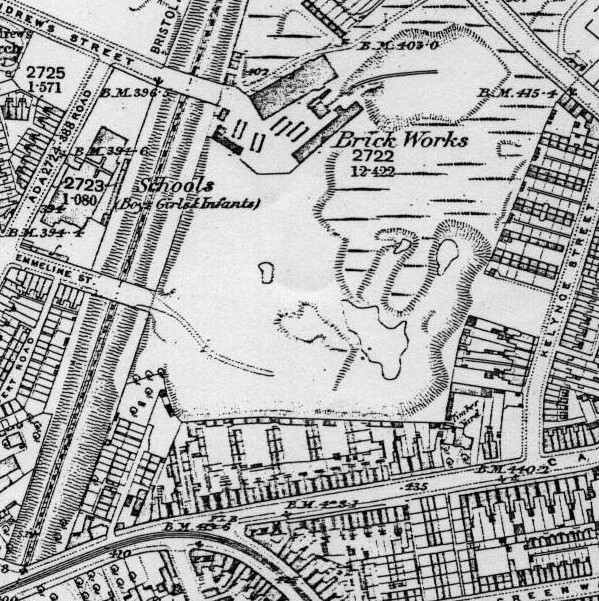 An Ordnance Survey map from 1890 showing the site where St Andrew's stadium, the home ground of Birmingham City F.C., would be built in 1906